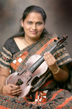 Classical, World fusion and Indo-JAzz Fusion Violinist